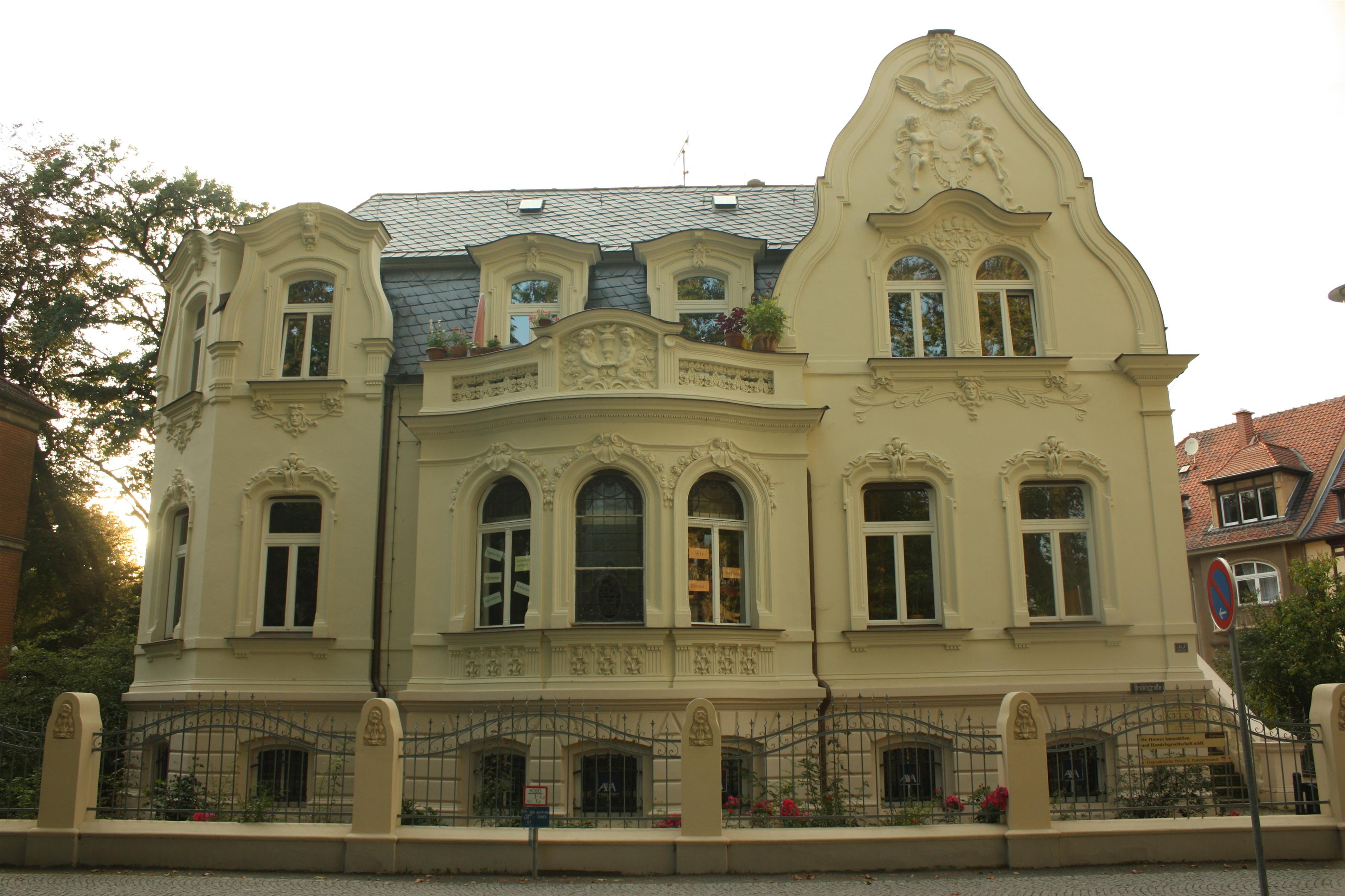 This is a photograph of an architectural monument.It is on the list of cultural monuments of Quedlinburg Brühlstraße 01 (Quedlinburg)